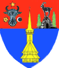 Coat of arms of Maramureș County, Romania.